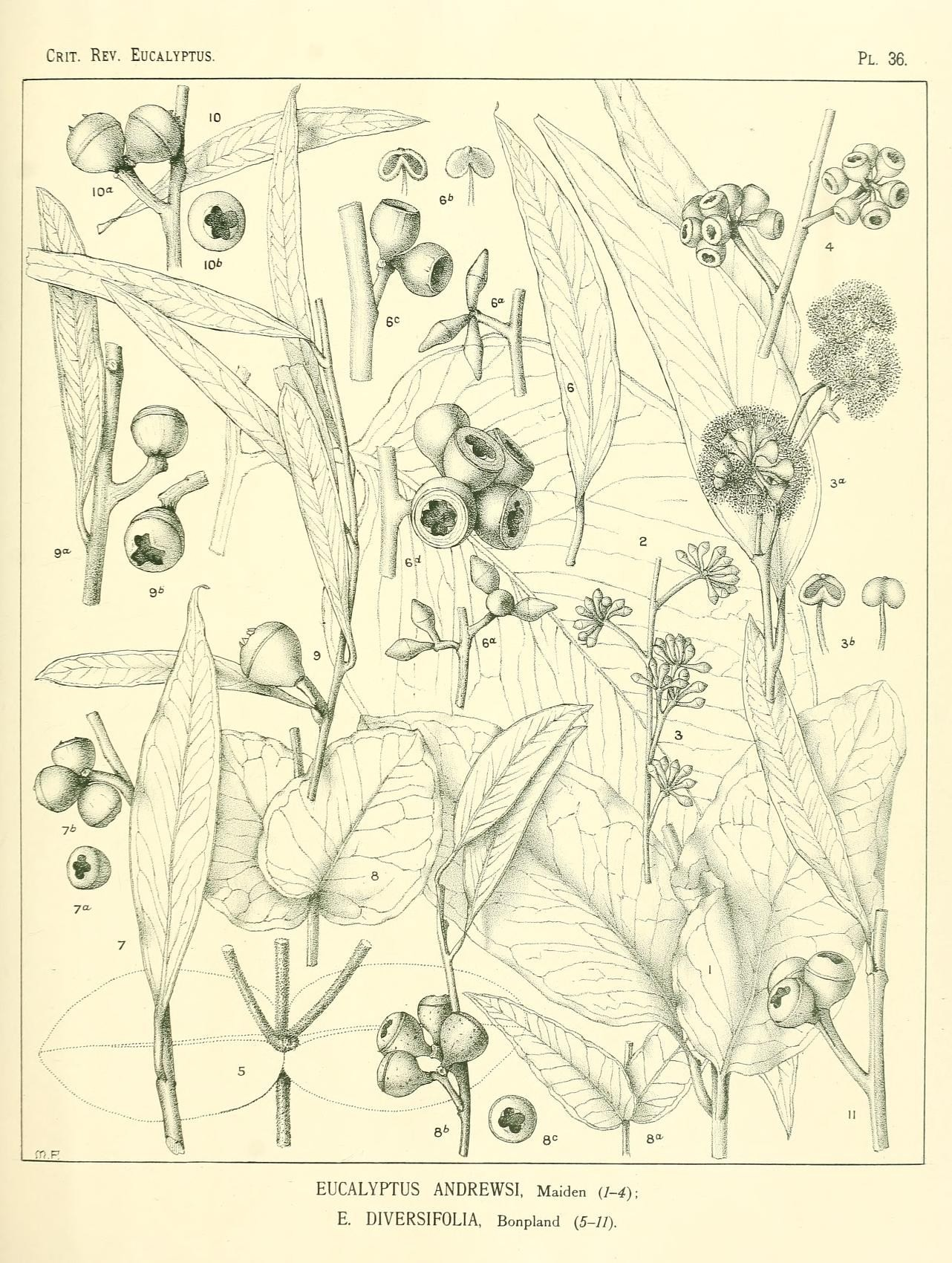 Crit. Rev. Eucalyptus. Pl. 36. EUCALYPTUS ANDREWSI, Maiden (1-4); E. DIVERSIFOLIA, Bonpland (5-11).